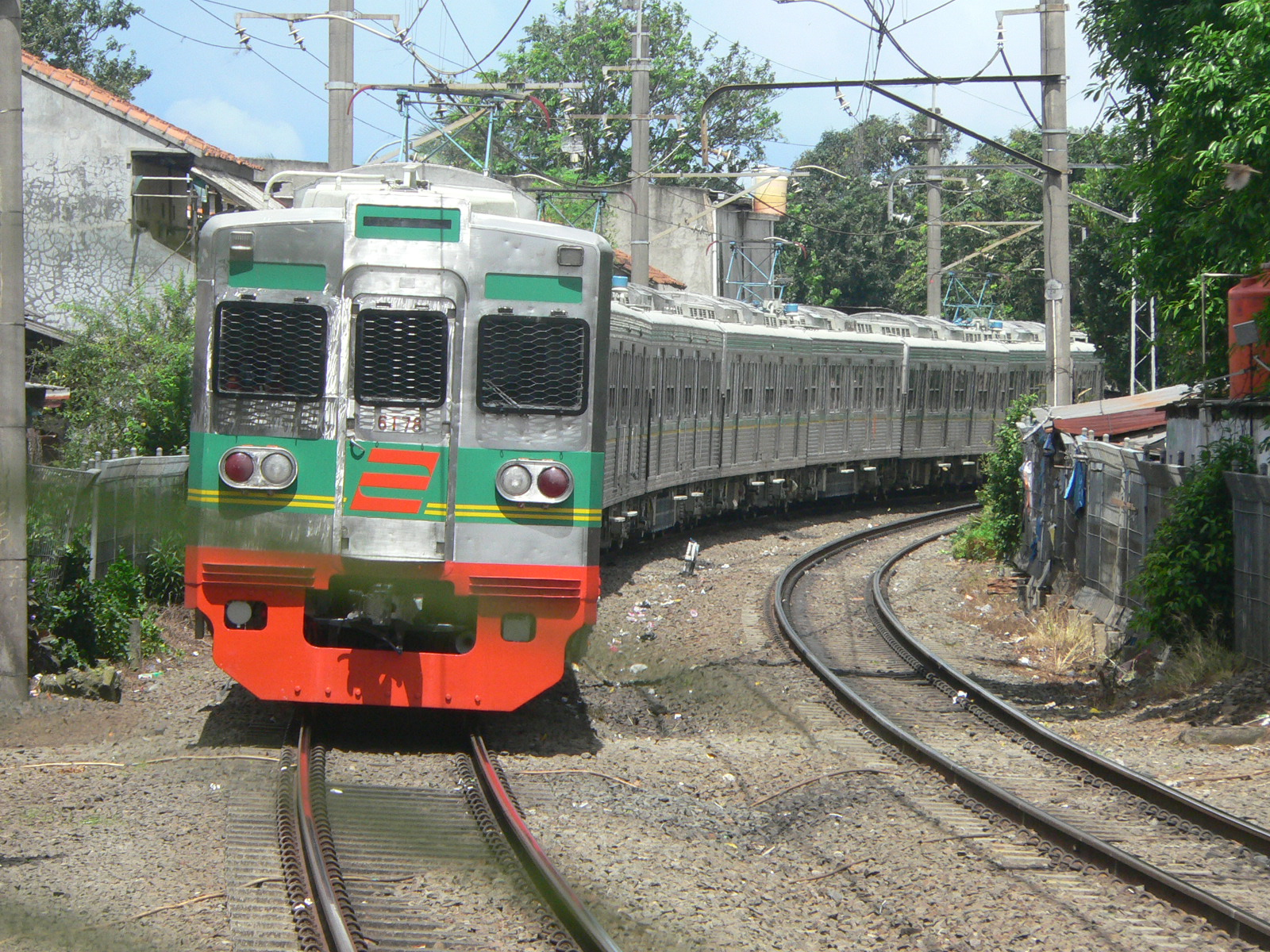 Former Toei Mita Line 6000 series EMU set 6171 operated by Jabodetabek in Indoensia. Universitas Pancasila - Lenteng Agung Curve, Jakarta-Indonesia